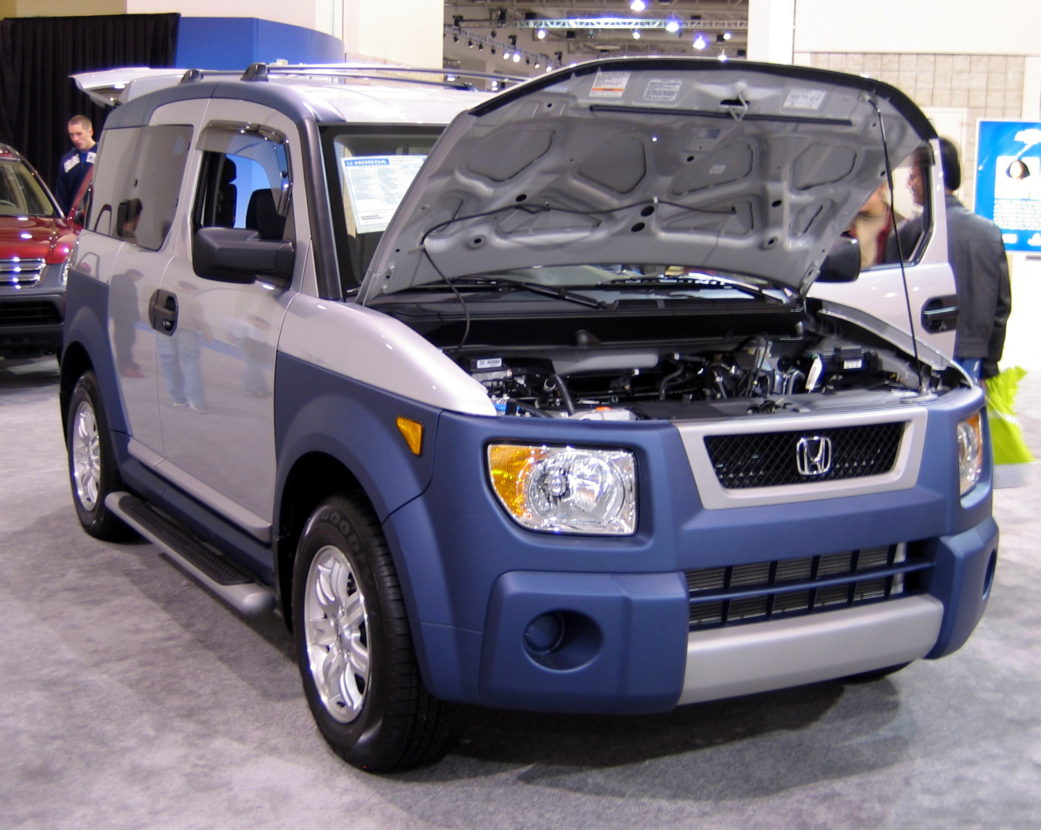 Photo by User:Aude, taken at the 2006 Washington Auto Show.